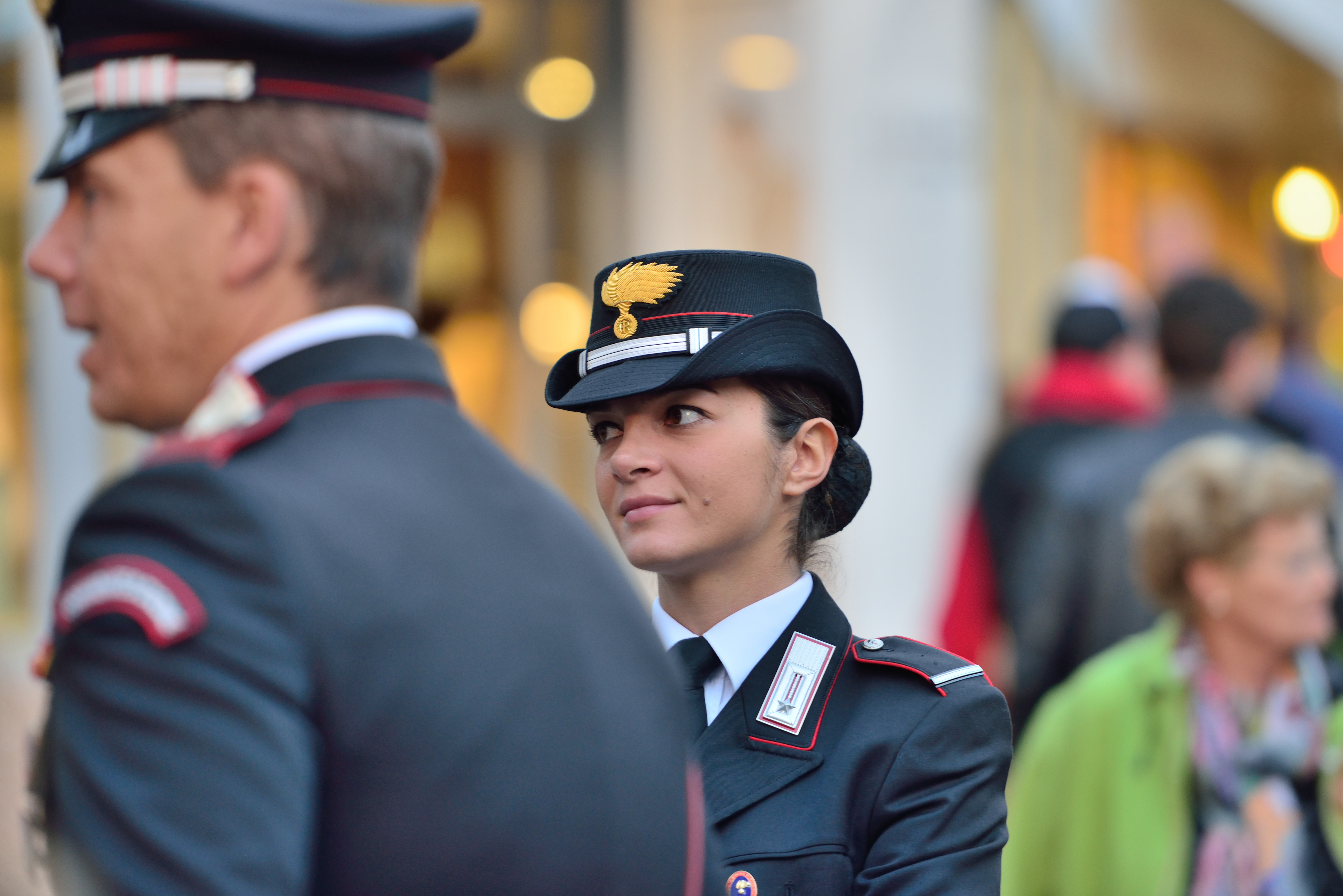 A female member of the Arma dei Carabinieri in Urtijëi in Gröden, South Tyrol